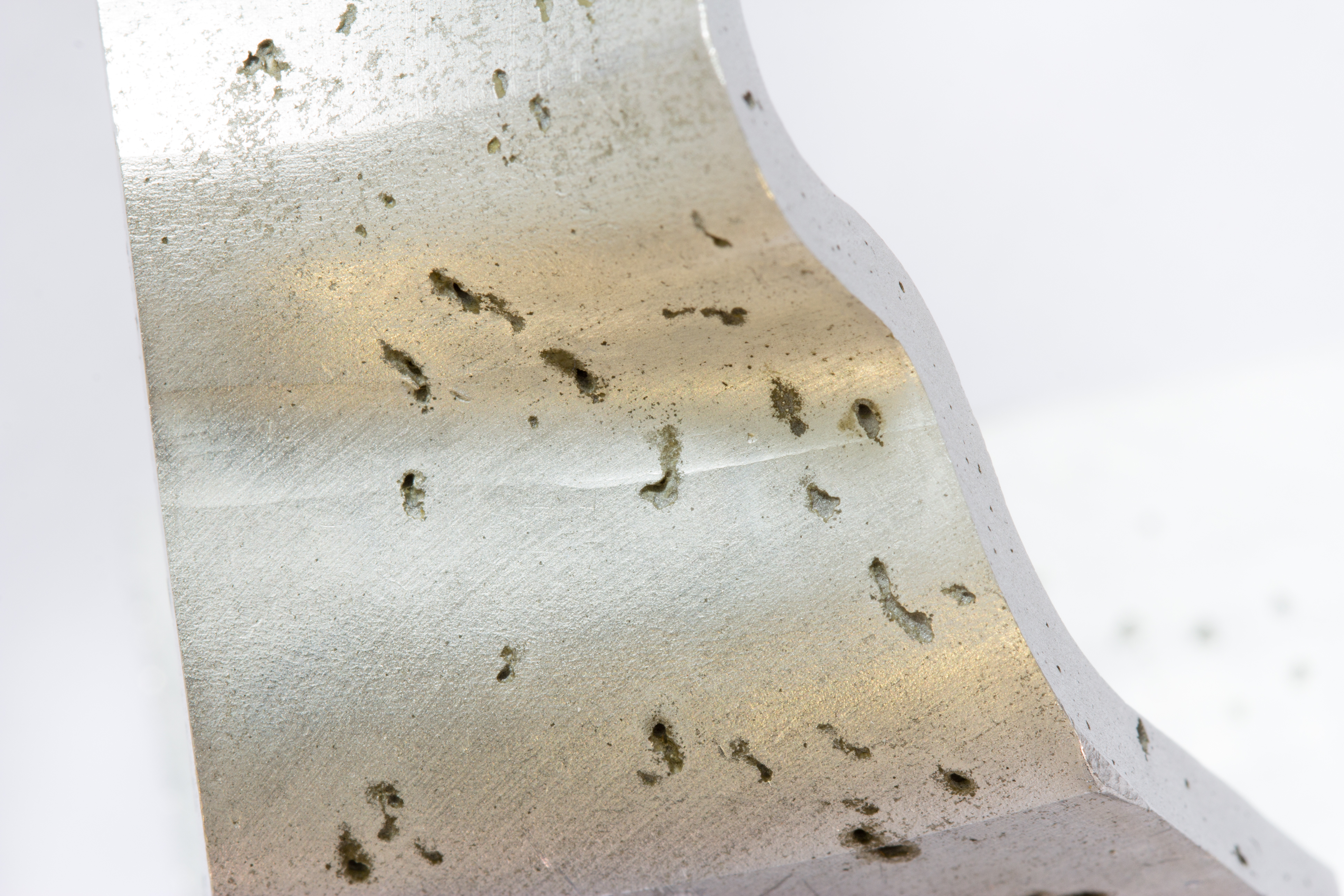 Pitting corrosion in a piece of aluminium. The holes caused by pitting which can be observed in this image are about 1 mm in diametre.